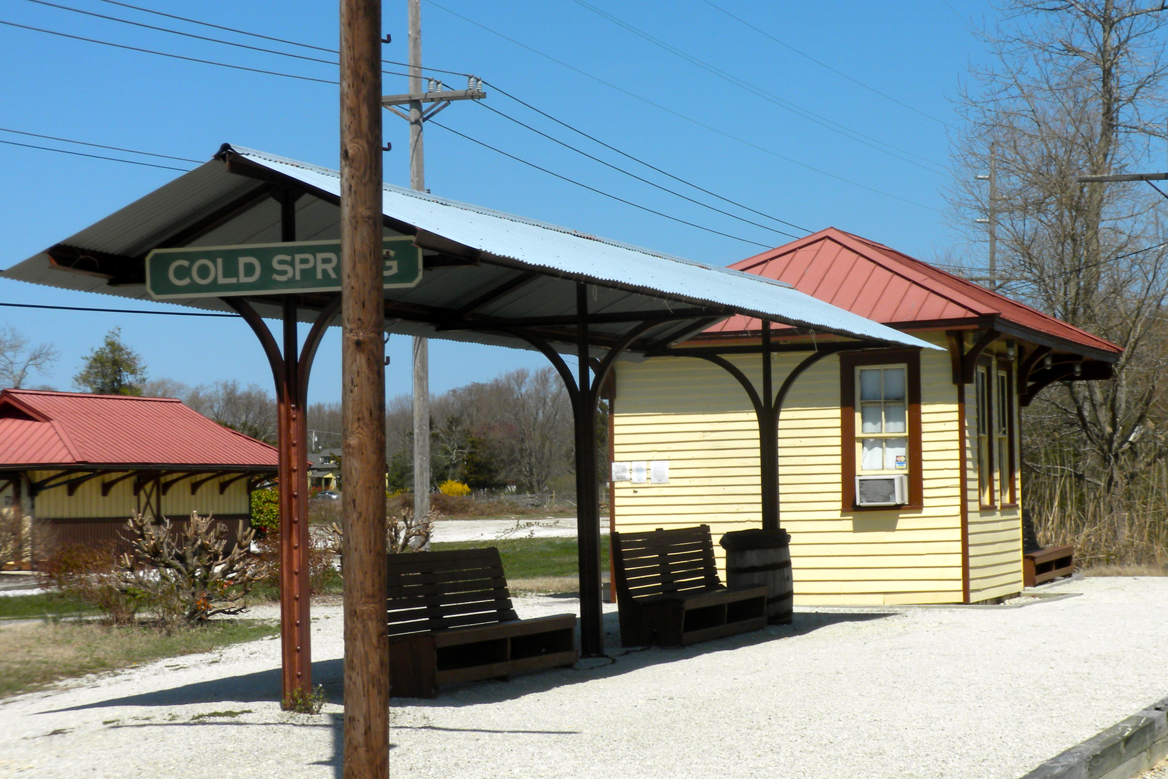 View of Rio Grande, New Jersey train station, after relocation to Historic Cold Spring Village in Lower Township, Cape May County, New Jersey. The station was built in 1894 and relocated to Cold Spring Village in 1975. Listed on NRHP February 13, 2007. Address: 720 US Route 9, Cape May, NJ. Station is now used by Cape May Seashore Lines